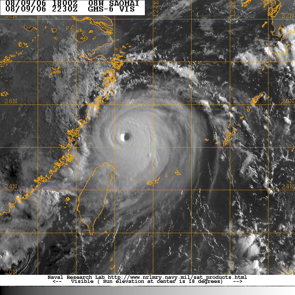 Typhoon Saomai at peak intensity on August 9, 2006